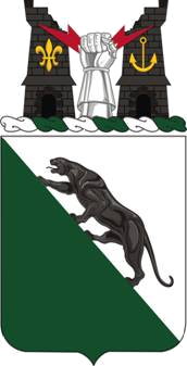 69th Armored Regiment Distinctive Unit Insignia